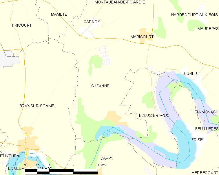 Map of French municipality Suzanne